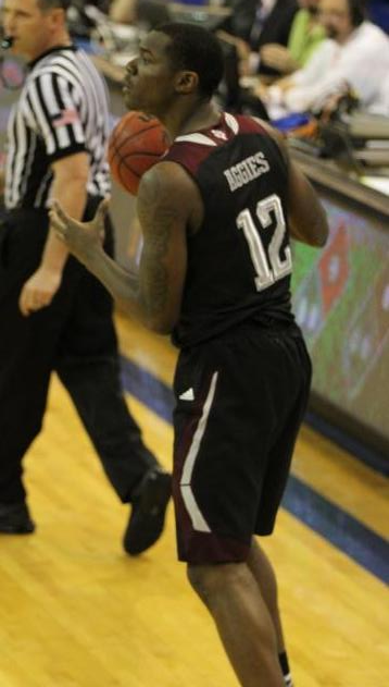 Texas A&M vs Florida Gators 2015/03/03